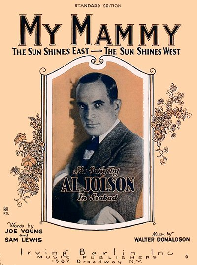 Sheet music for "My Mammy" by Walter Donaldson with lyrics by Joe Young and Sam M. Lewis Cover has photo of Al Jolson Published 1921 by Irving Berlin Music.